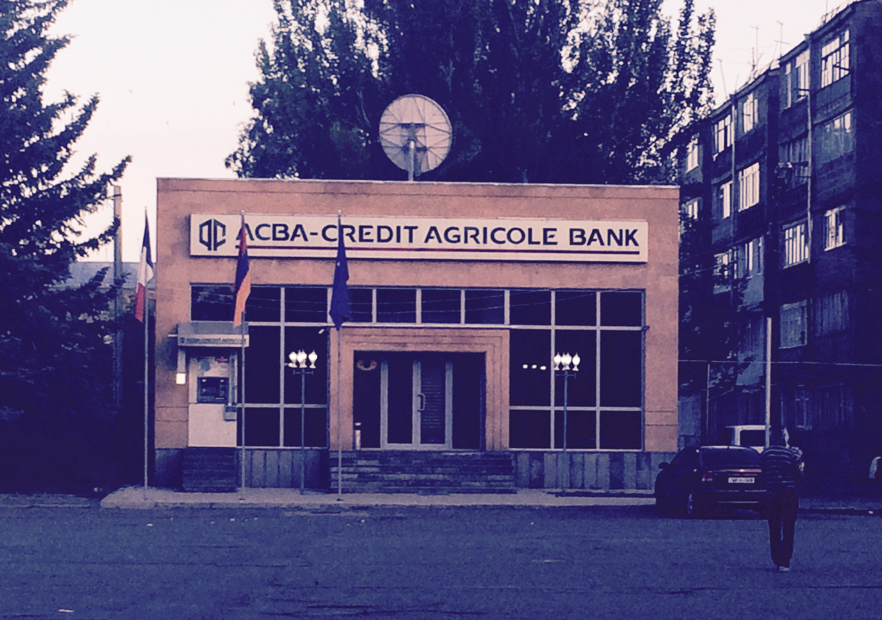 ACBA-Credit Agricole bank, Maralik branch.